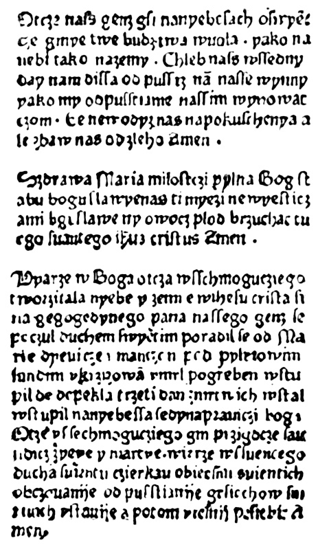 Image from Z. Gloger's "Encyklopedia staropolska"